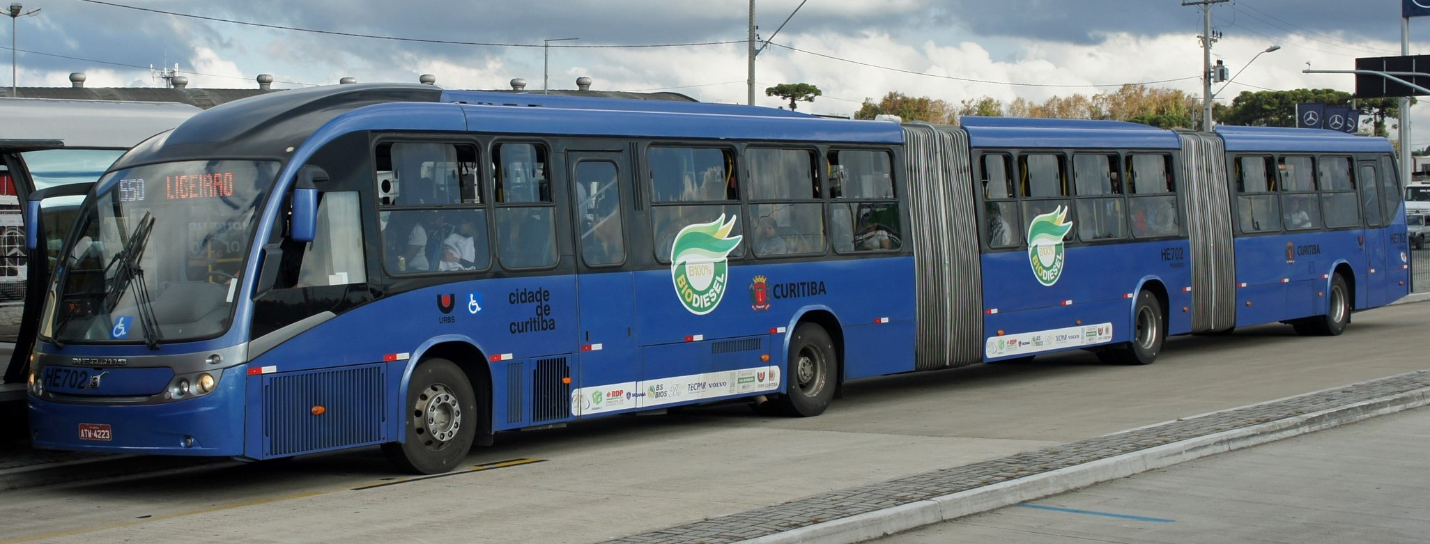 Cropped picture focusing on the bus.